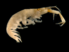 A female amphipod sampled on the Belgian Continental Shelf. This image was created with Zerene Stacker.